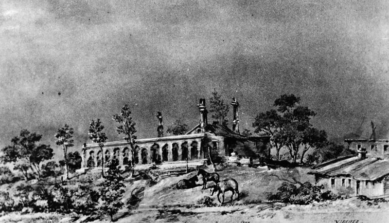 A Mormon relic. Ruins of Elders Amasa Lyman and Charles C. Rich's residence at the Mormon Colony of San Bernardino from 1848 to the 1857 exodus on account of the war. Sketched by Edward Vischer, April 1865.